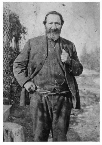 Peter Erasmus 1833-1931 Canadian guide and Metis interpreter